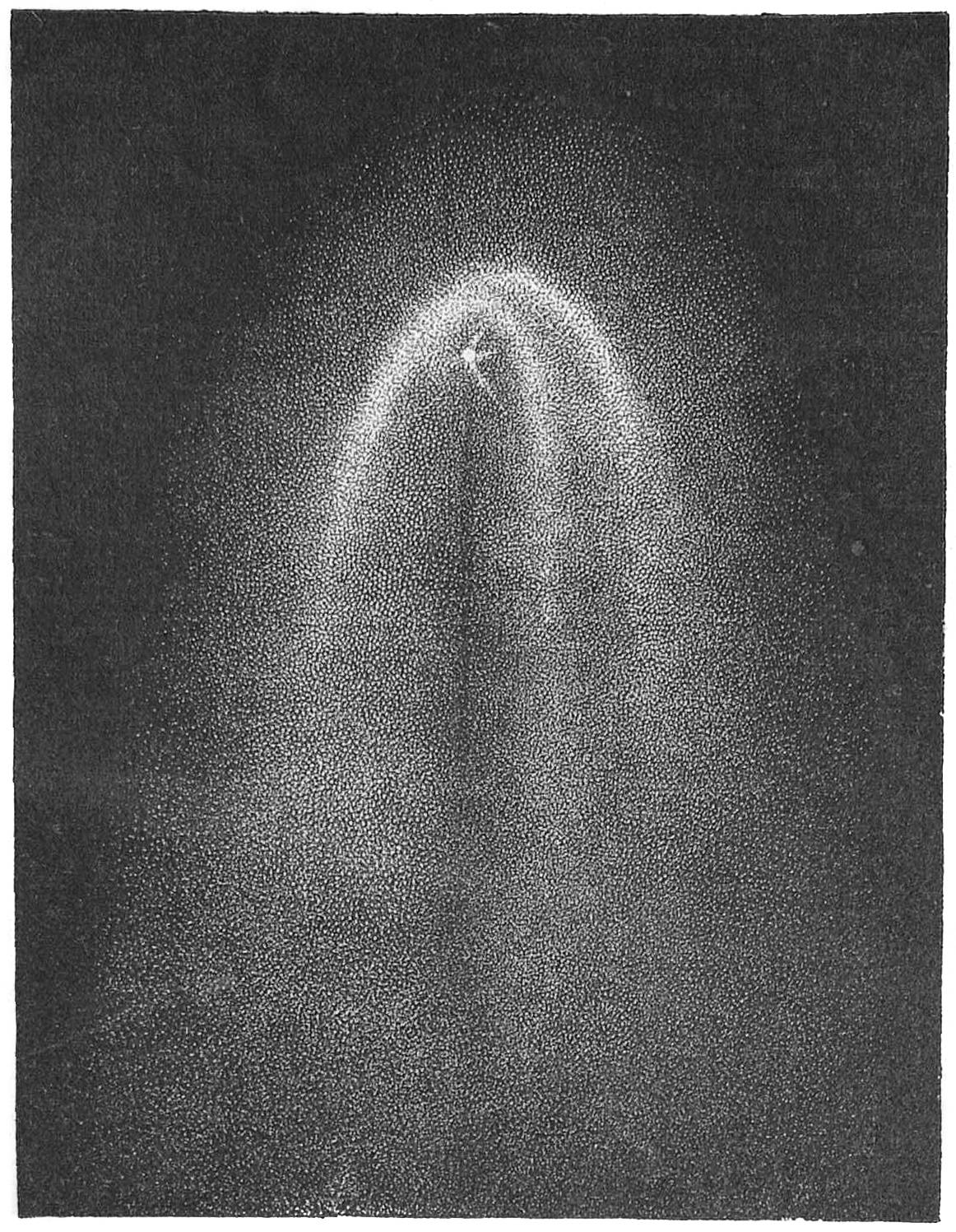 caption: "I. Der neue Komet in der Nacht vom 25. zum 26. Juni 1881.Beobachtet und gezeichnet von Dr. L. Weinek."